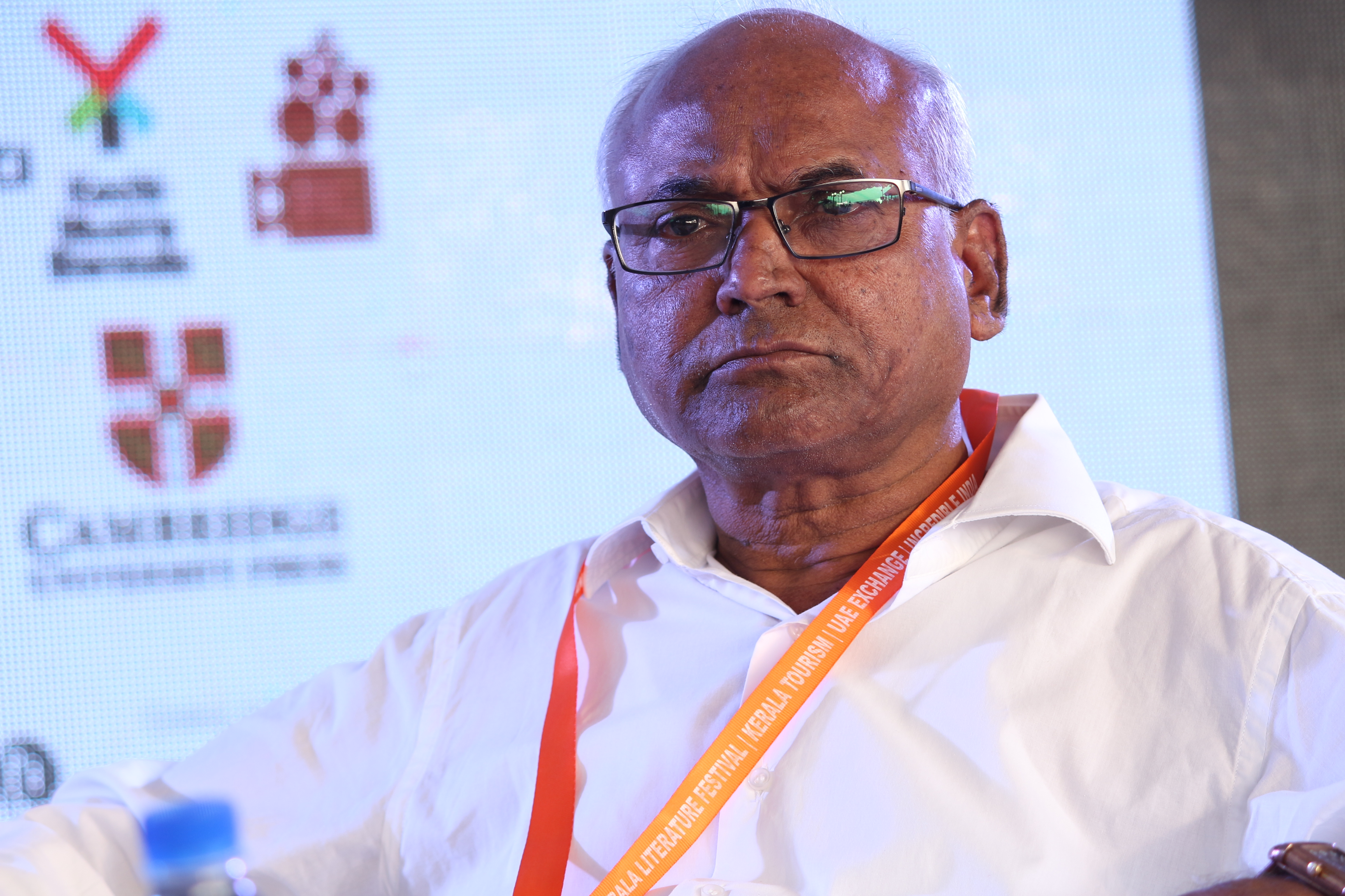 Kancha Ilaiah at Kerala Literature Festival, Kozhikode in 2018